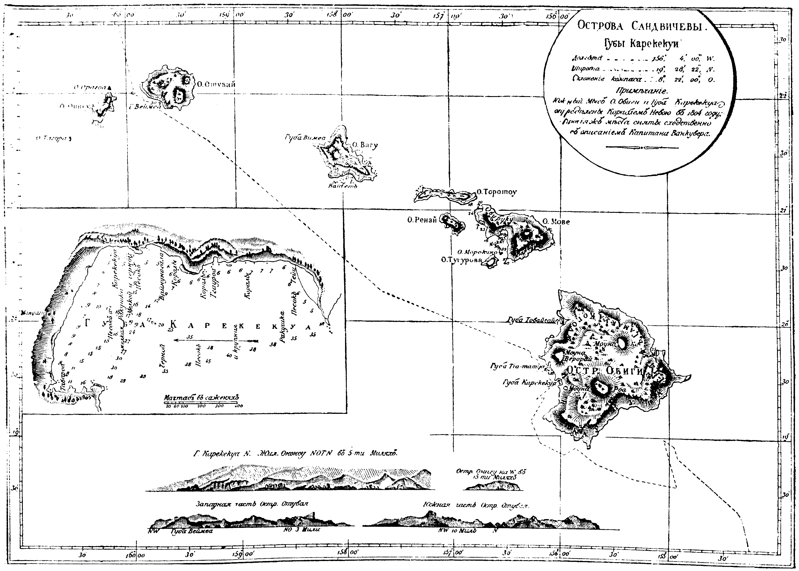 Yuri Lisyansky (1804, with "Neva" ship path) and George Vancouver (1791) map in Russian.